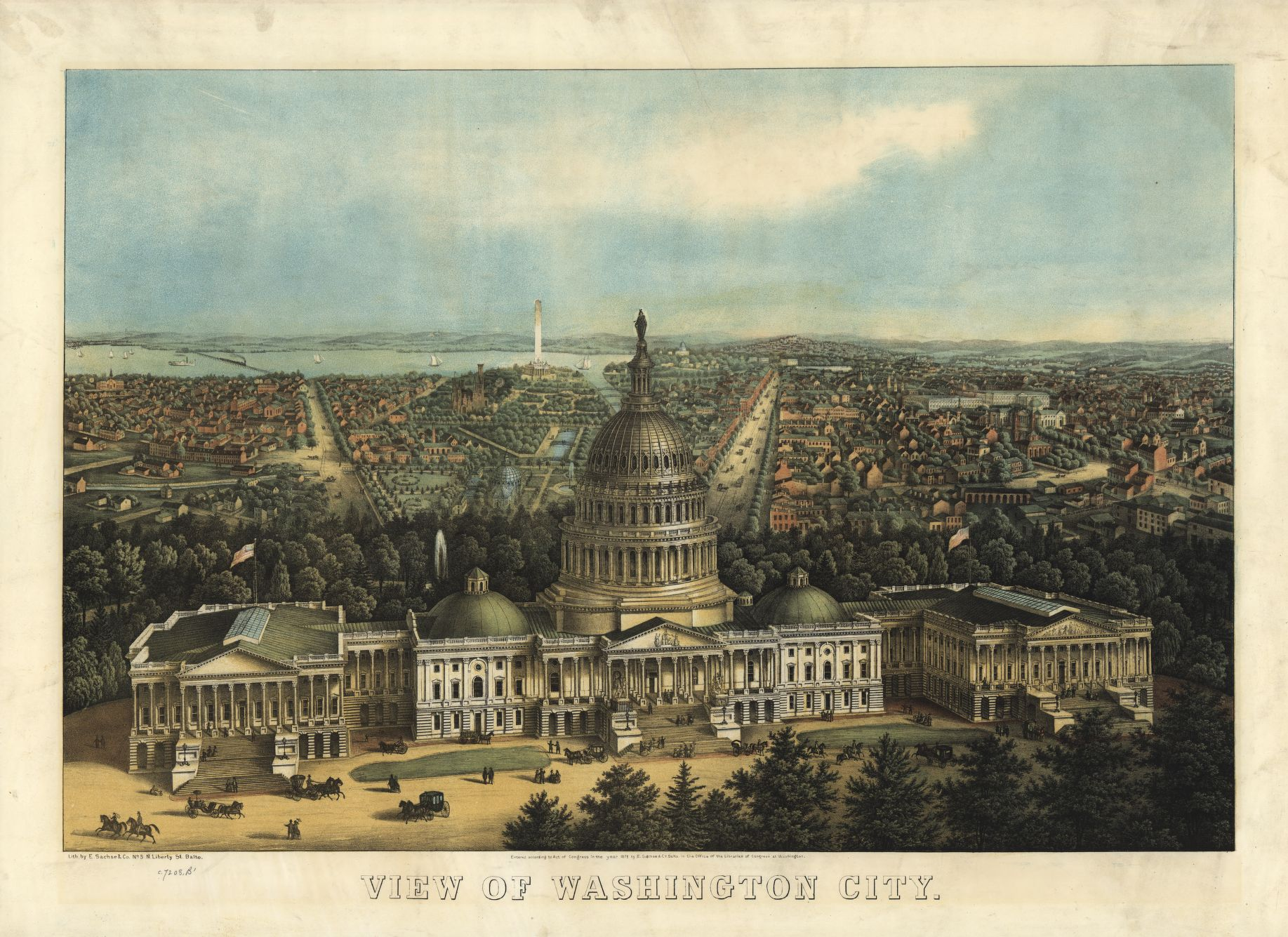 Low-angle bird's-eye view of central Washington toward the west and northwest with The Capitol in foreground. "Entered according to Act of Congress in the year 1871 by E. Sachse & Co. Balto. in the Office of the Librarian of Congress at Washington."